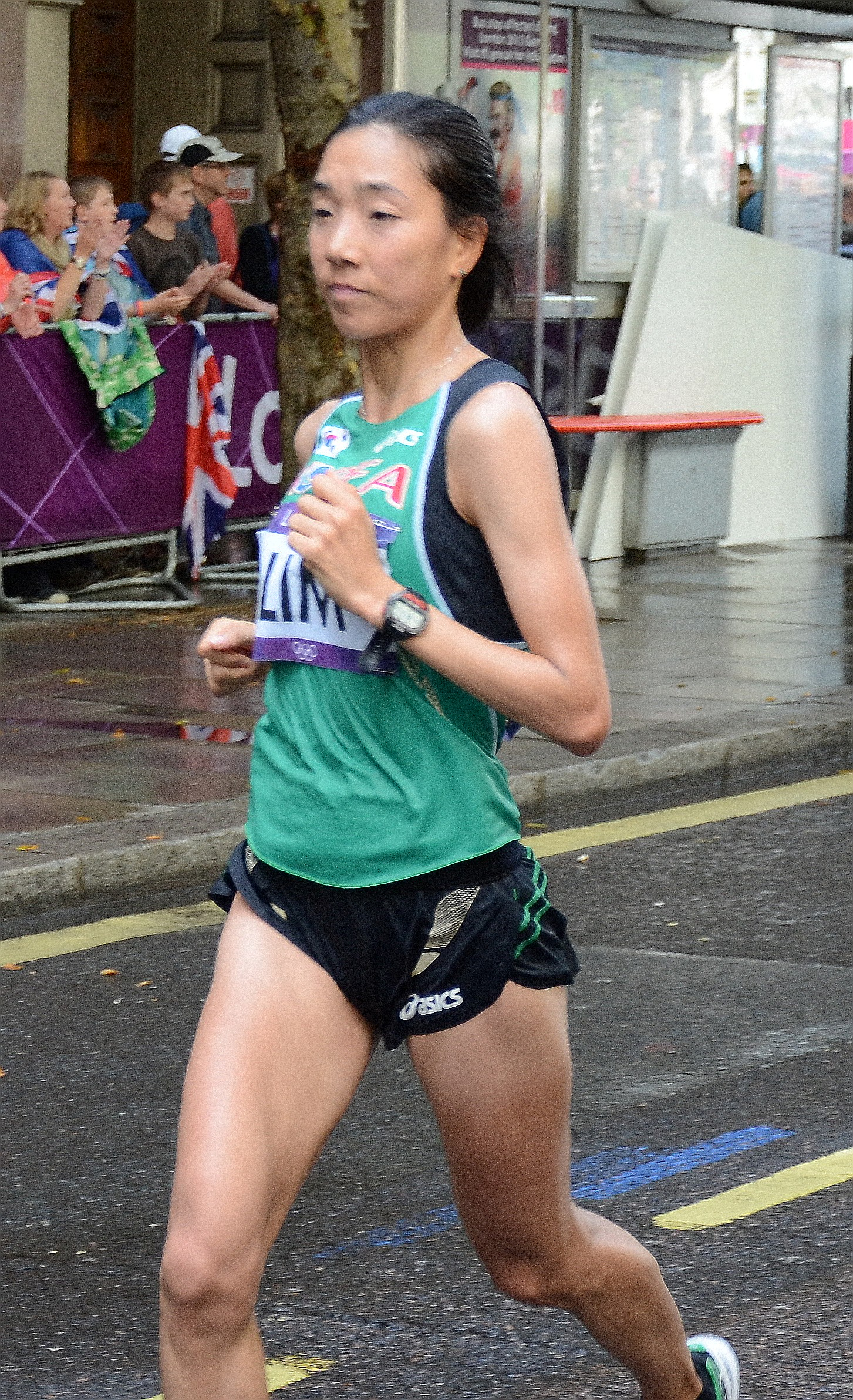 Lim Kyung-Hee (South Korea) in the marathon (w) at the Olympic Games 2012